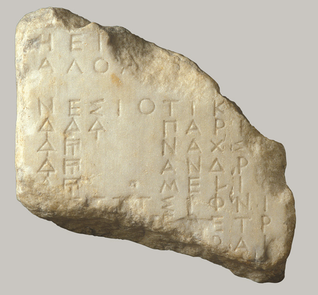 Greek, Attic; Inscription, Athenian tribute list fragment; Stone Sculpture